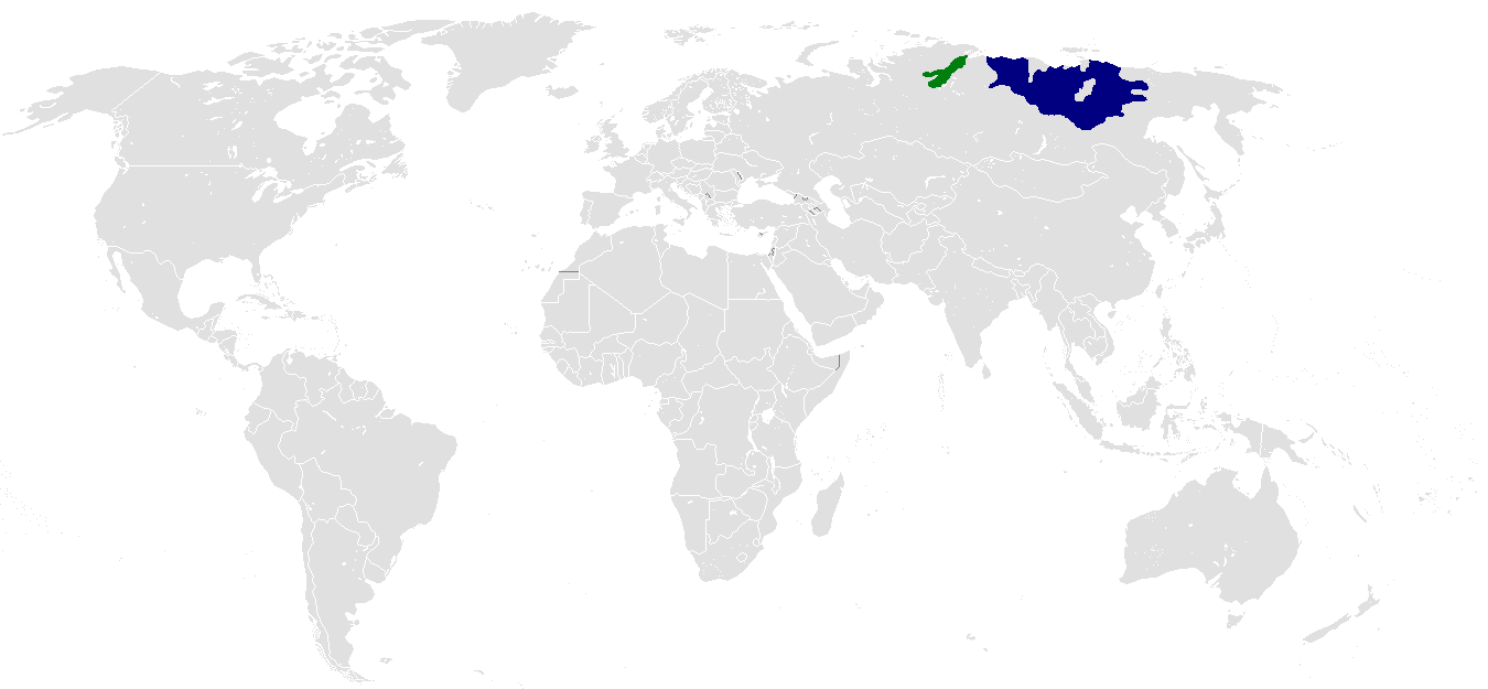 Redrawn closely from the original version made by Straughn to get rid of the JPG artifacts, and to convert image's contents into PNG format. Dolgan language color is now green to make the map easier to understand. Yakut language is still blue. This file was derived from: SakhaDolganWorld.jpg BlankMap-World-NoAntarctica.png